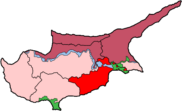 Map of Cyprus showing Larnaca district. The green areas are the UK Sovereign Base Areas, the blue area is the UN buffer zone. Areas north of the buffer zone are controlled by the Turkish Republic of Northern Cyprus, areas south are controlled by the Greek Cypriot government.